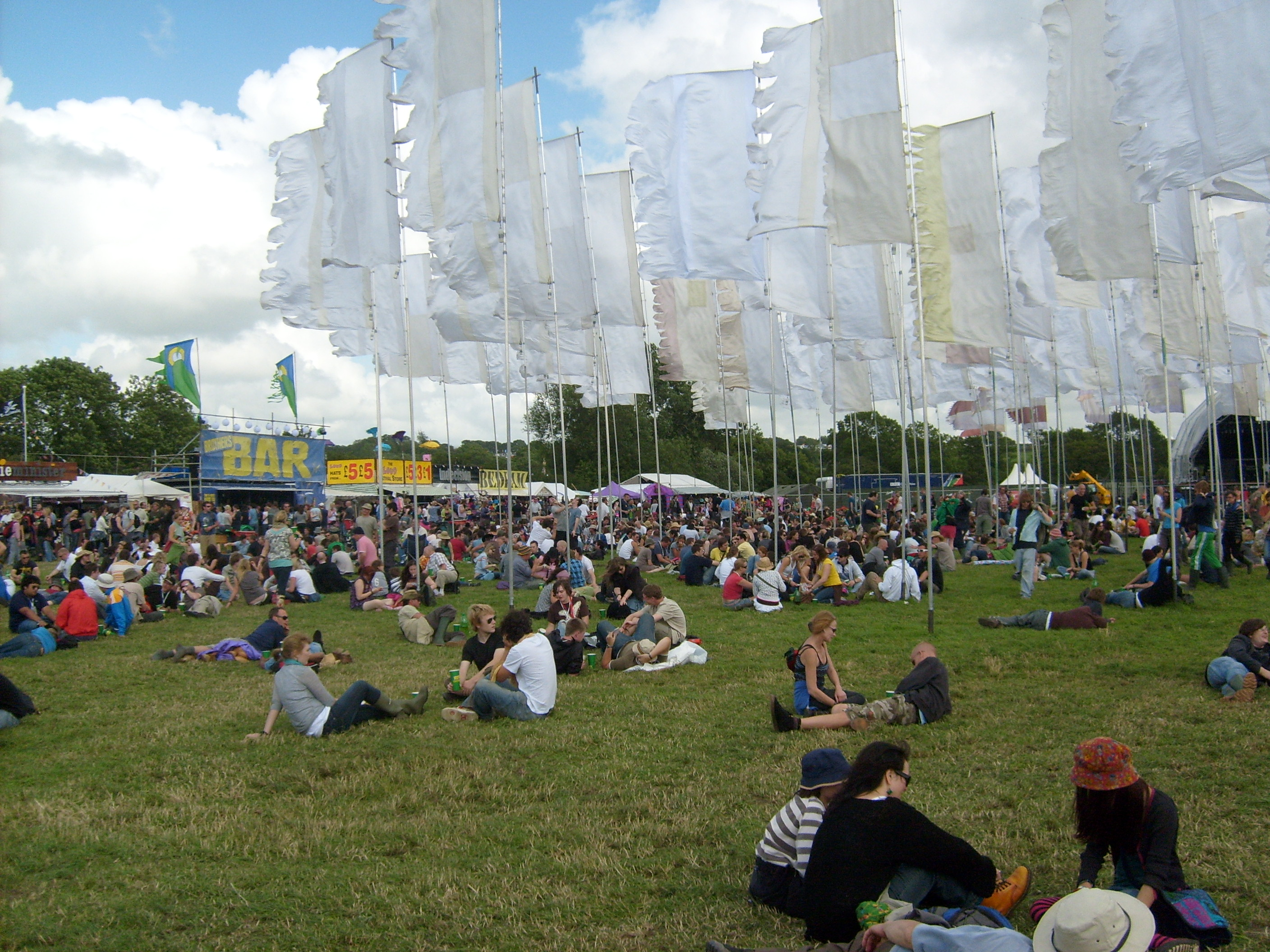 jazz world field/brothers bar glastonbury festival 2007